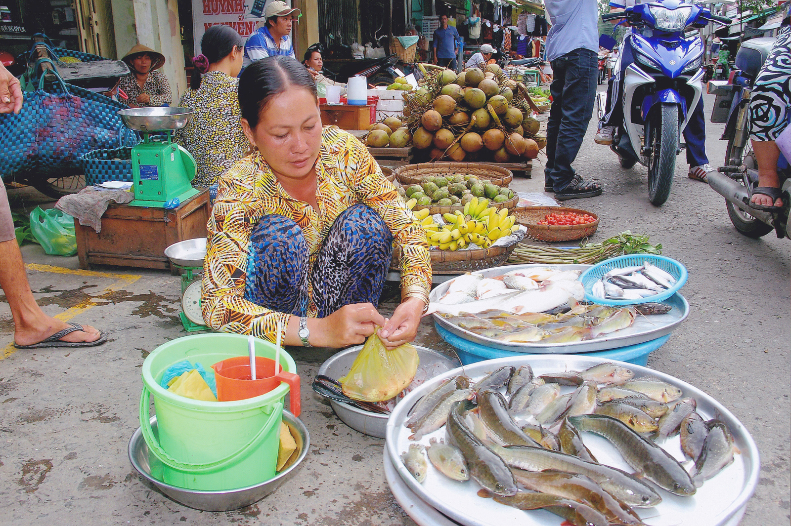 Market woman who offers fish in Vietnam